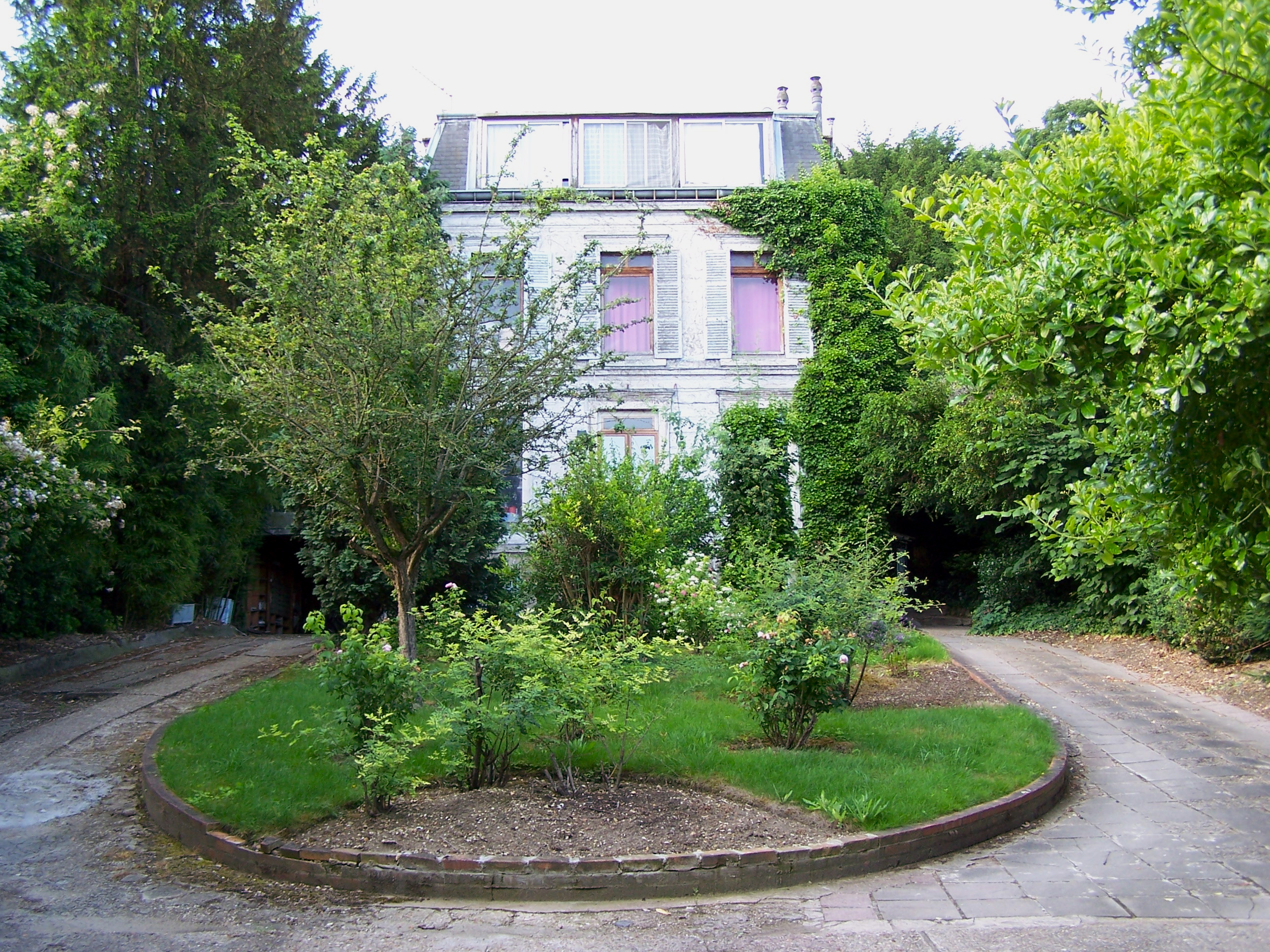 House of the writer Louis-Ferdinand Céline and his wife at route des Gardes, Meudon, France